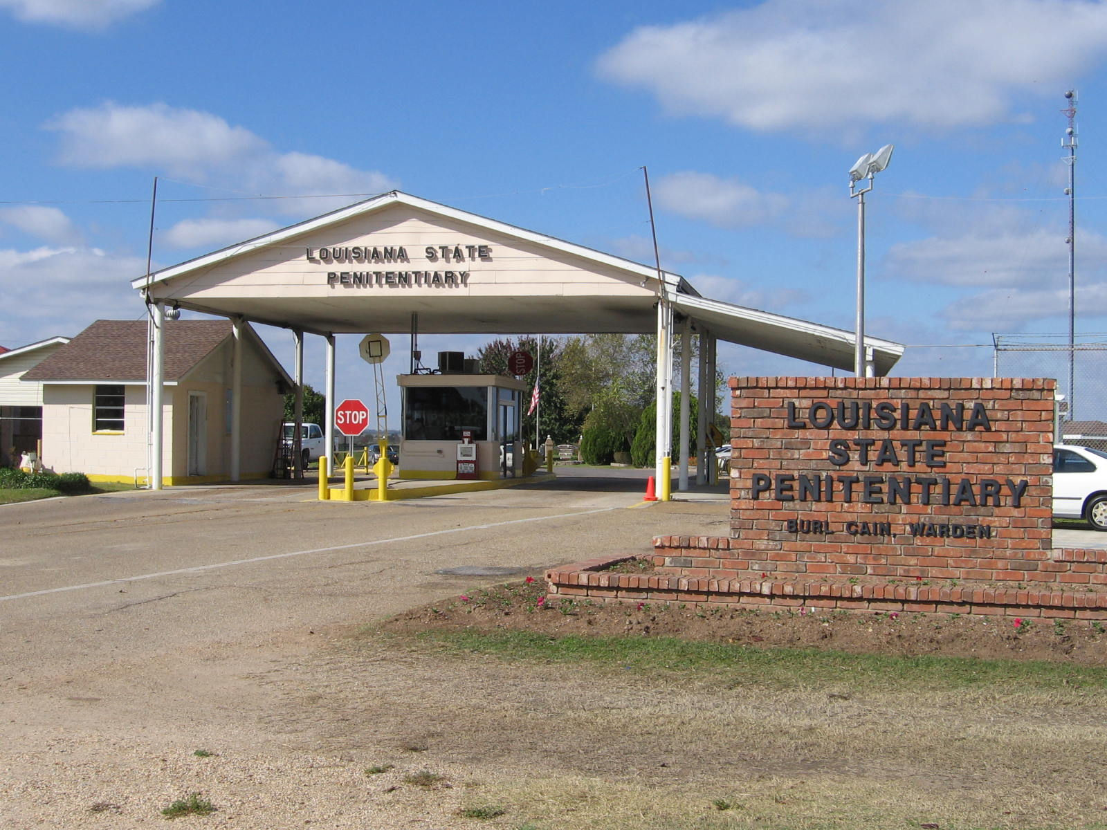 The entrance to the Louisiana State Penitentiary - The placard says "Louisiana State Penitentiary" and "Warden Burl Cain"